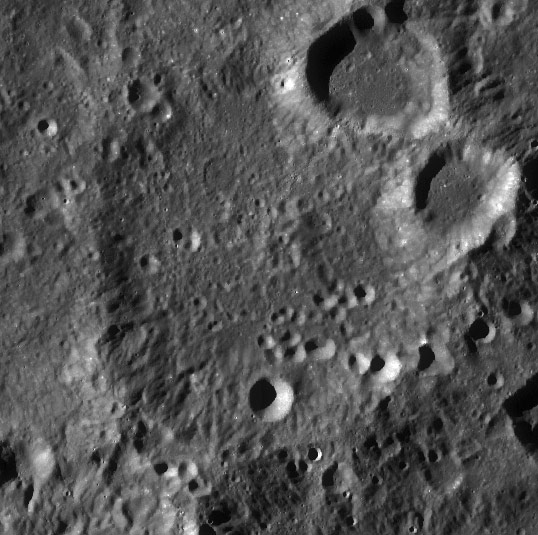 Lundmark lunar crater - LROC image